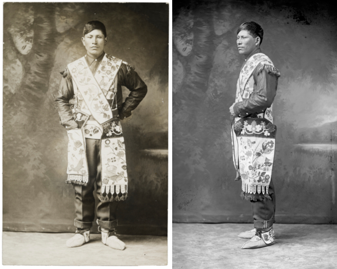 Front and Profile Portrait of Pete Moos, Mille Lacs Band of Ojibwe, c1913 by photographer Ross A. Daniels. The photo shows a gashkibidaaganag (bandolier bag) and the spot-stitch appliqué featuring complex layered and assembled motifs that are associated with the Mille Lacs Band. Composite photo made from [File:Profile Portrait of Pete Moos-c1913.jpg] and [File:Portrait of Pete Moos-c1913.jpg0